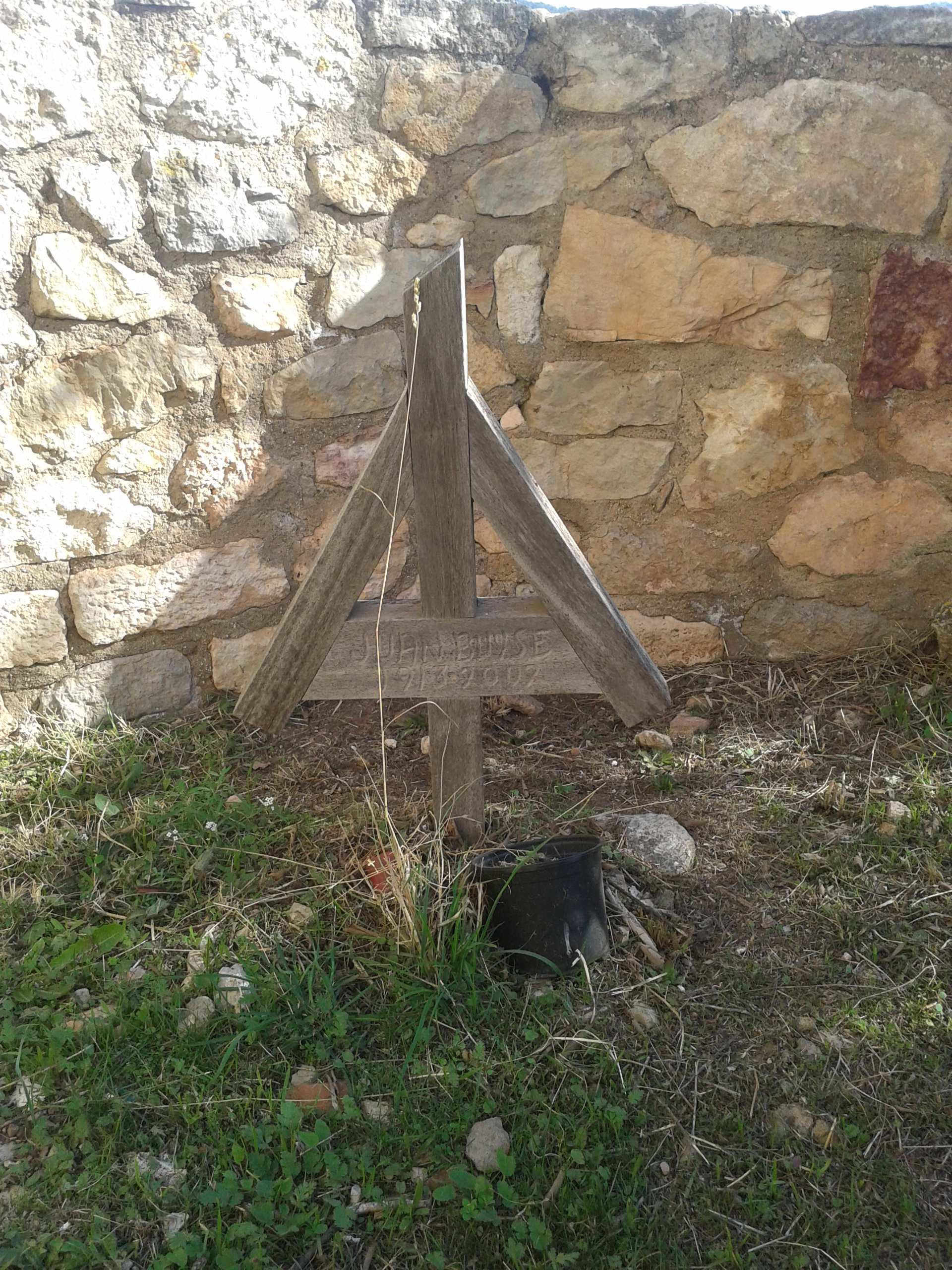 Tomb of the nazi Jan Buyse in the cementery of Siurana (Priorat)